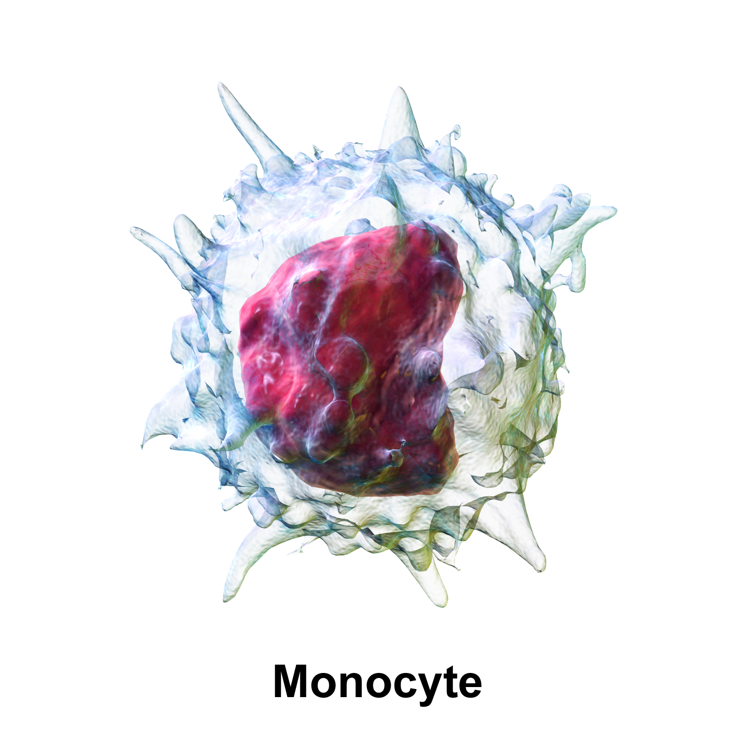 Monocyte. See a full animation of this medical topic.